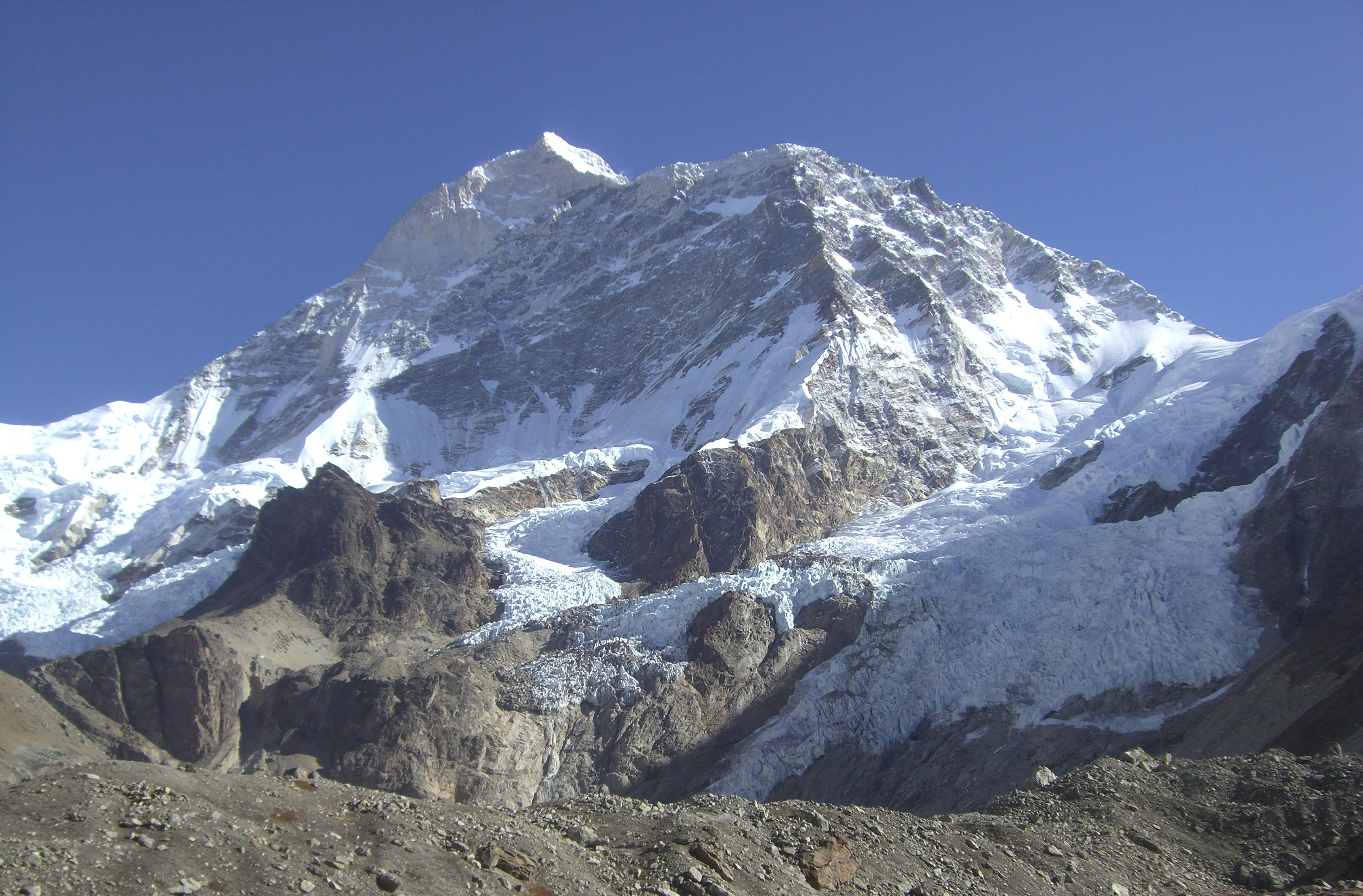 Mt Makalu